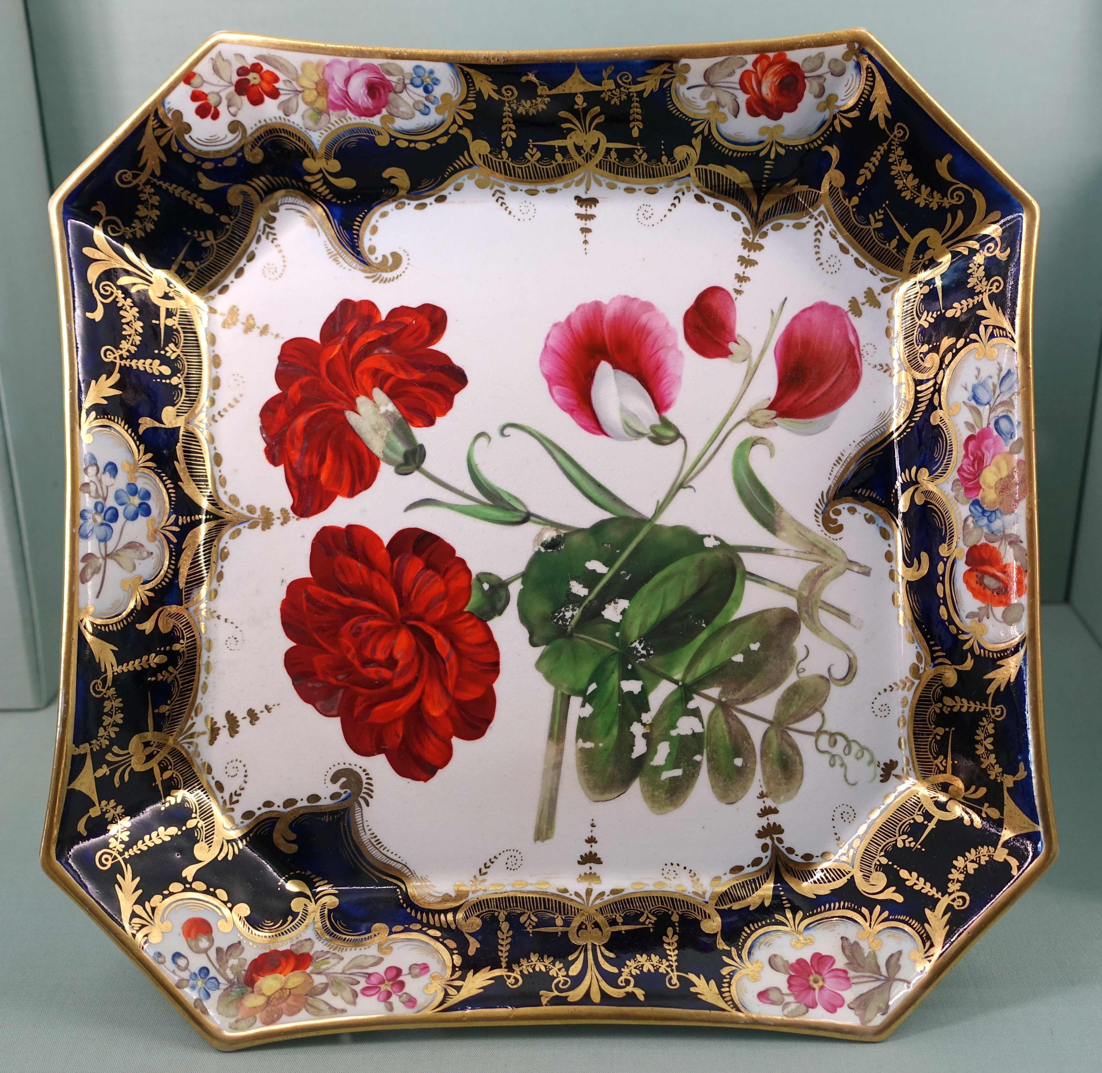 Dessert service, Coalport Porcelain Manufactory, probably 1830s-1840s - Harewood House - West Yorkshire, England.